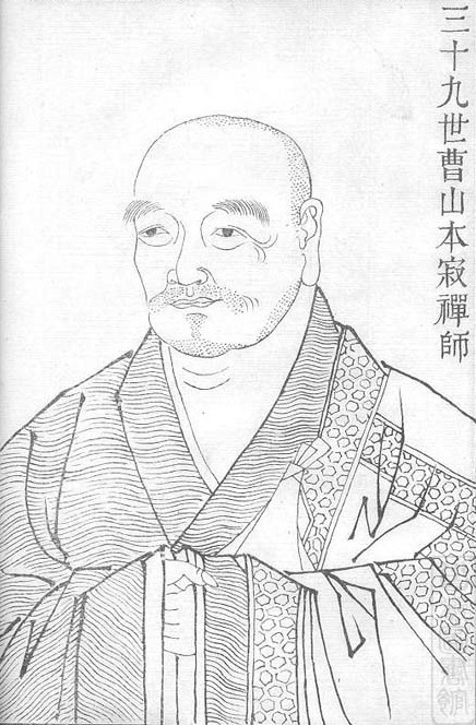 Caoshan Benji (840-901), a high disciple of Dongshan Liangjie. Woodcut, Ching dynasty; caption:「三十九世曹山本寂禪師」